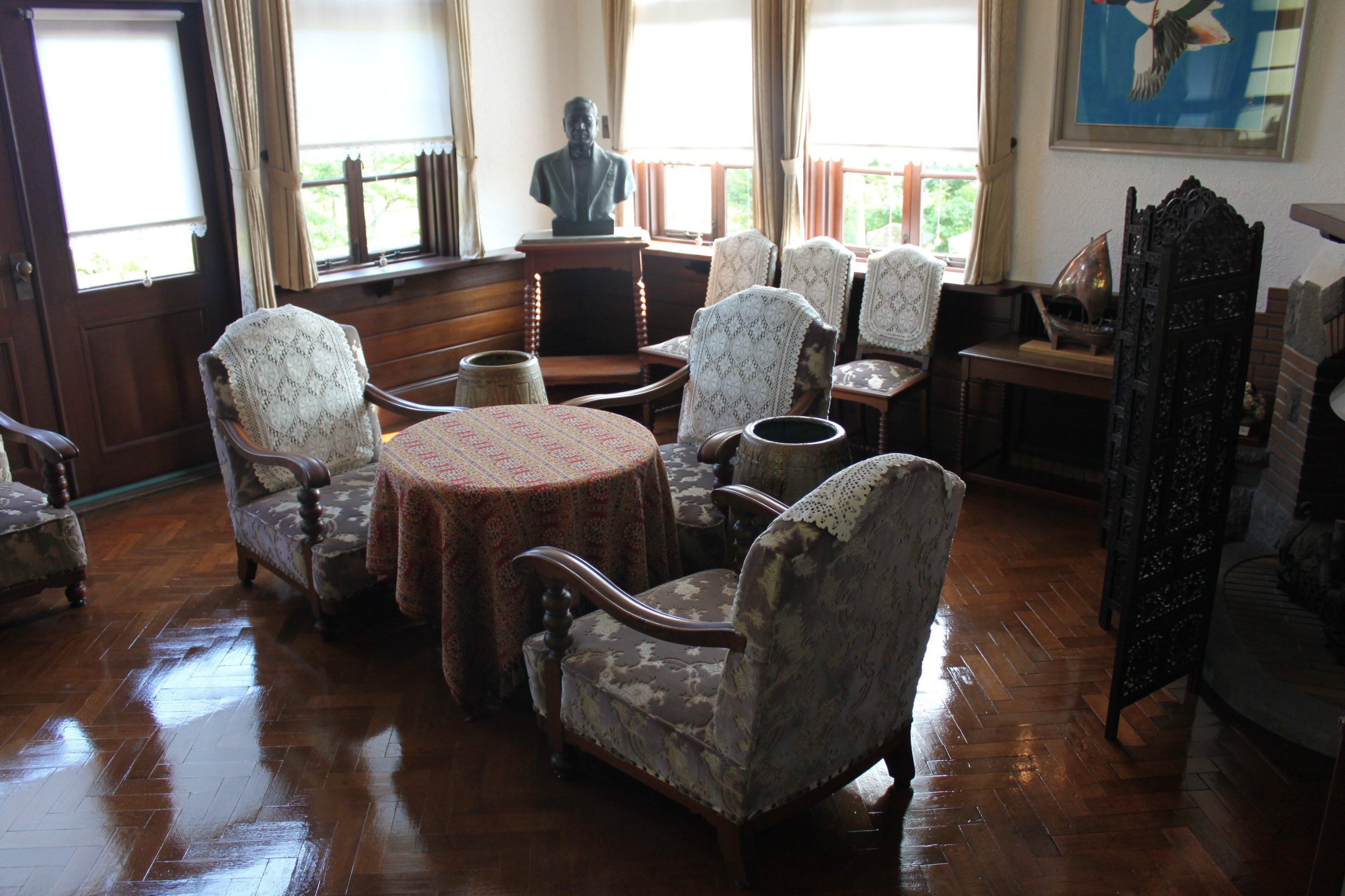 House of Toyota founder Kiichiro Toyoda, near Toyota City - By Bertel Schmitt